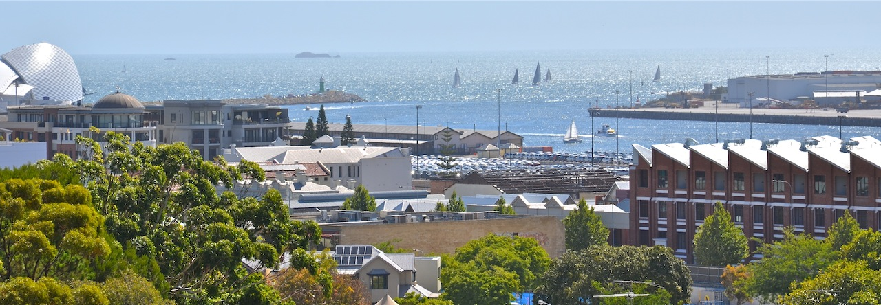 Fremantle heads from Burt Street